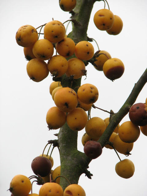 A rich table for birds - close view of fruit. See 607134 for a view of the whole tree.